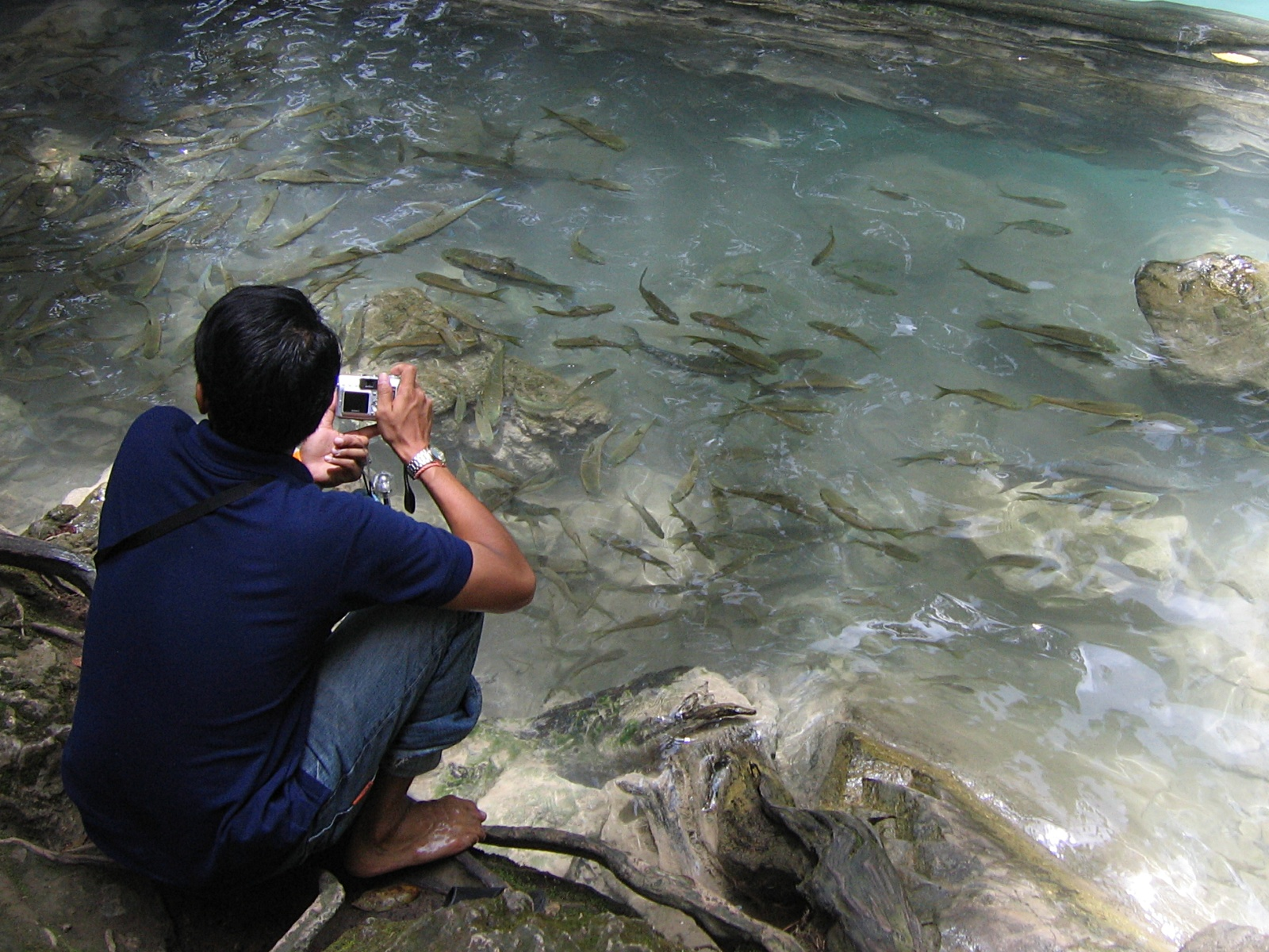 A large shoal of Neolissocheilus stracheyi at Erawan fall, Amphoe Si Sawat, Kanchanaburi Province, Thailand